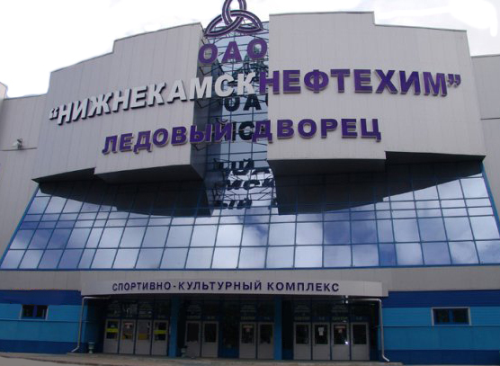 Neftekhimik Ice Palace